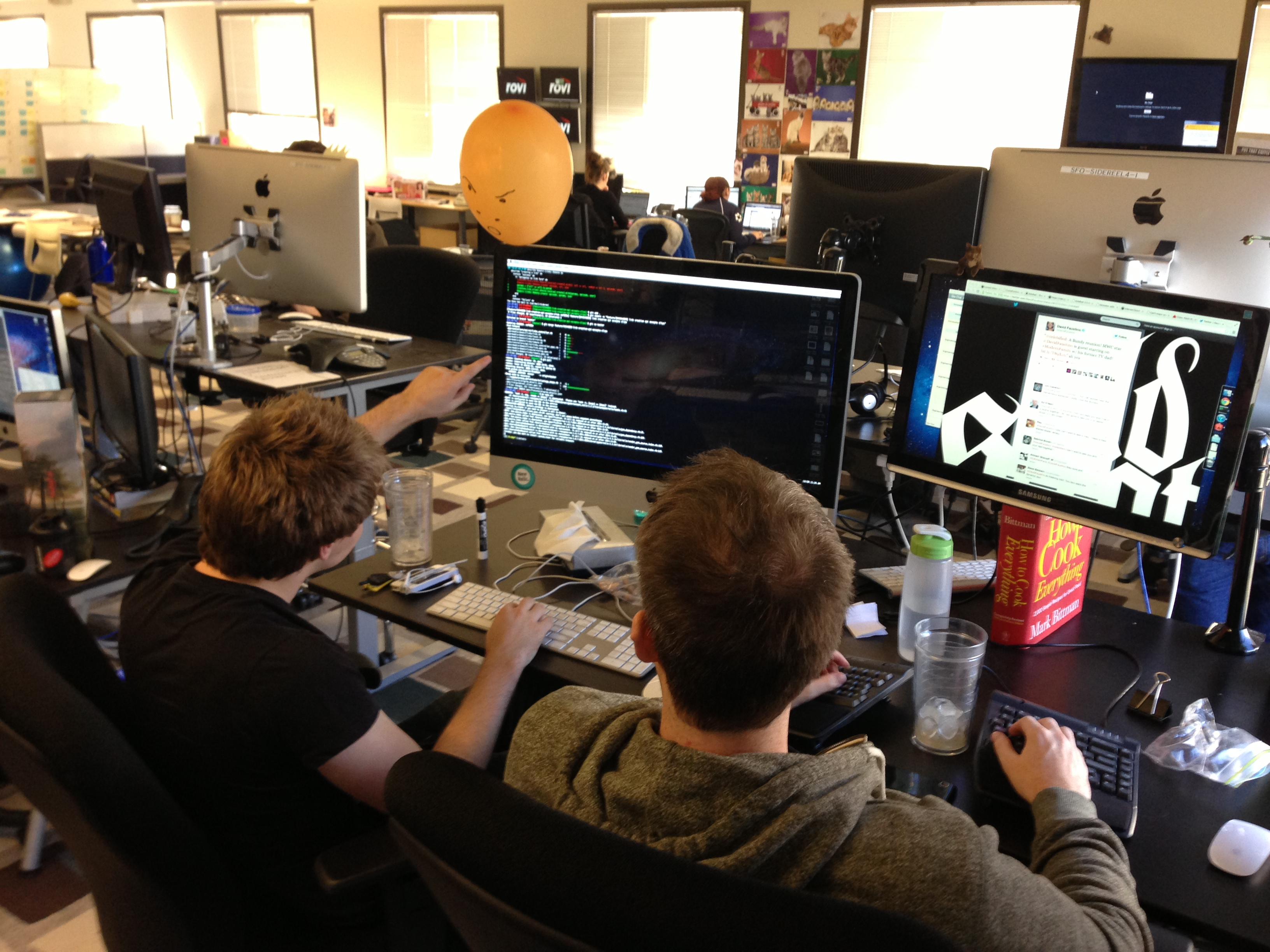 Engineers at a startup pair programming